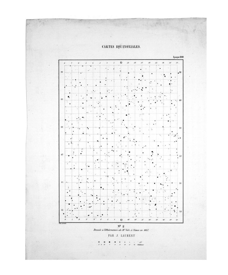 A sample page from Laurent, J. Cartes équinoxiales, époque 1800. Nos 2. 3. 4. 14. 15, dressées à l'Observatoire de M. Valz à Nimes en 1857 OCLC: 492553657. Top caption reads: CARTES EQUINOXIALES (Equinoxial charts, or Equinoctial charts) Bottom caption reads: Dressée à l'Observatoire de Mr Valz à Nîmes en 1857 PAR J. LAURENT (Drawn up at the Observatory of Mr. Valz at Nîmes in 1857 by J. LAURENT) M. Valz (Monsieur Valz) is Benjamin Valz.